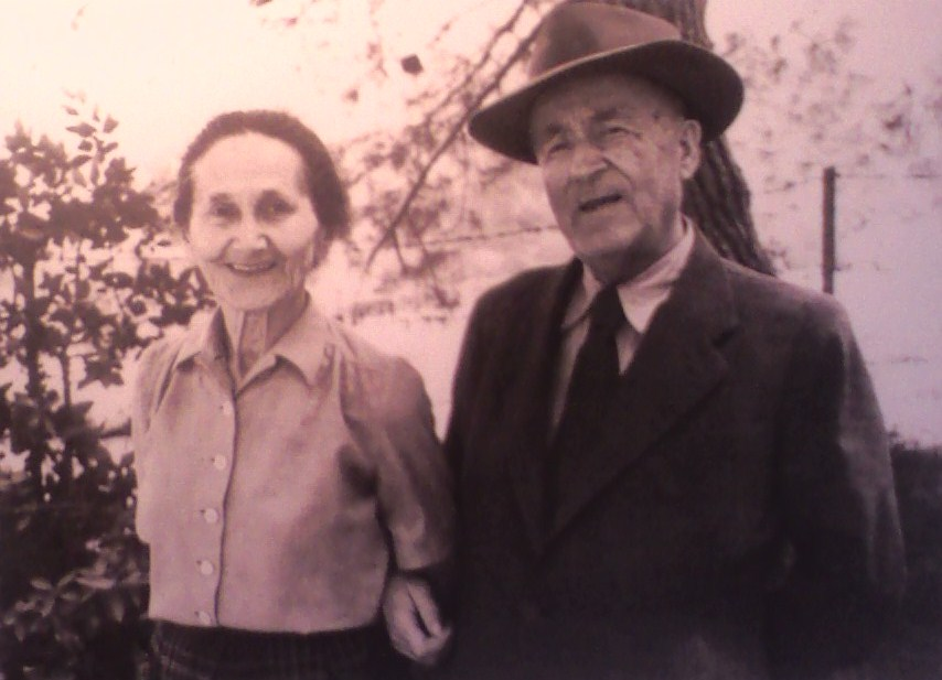 agnon and ester, 1966